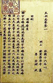 The Korean encyclopedia titled, "Imwong yeongjeji (임원경제지, literally "book on forest and economics) made in the late Joseon dynasty of Korea.